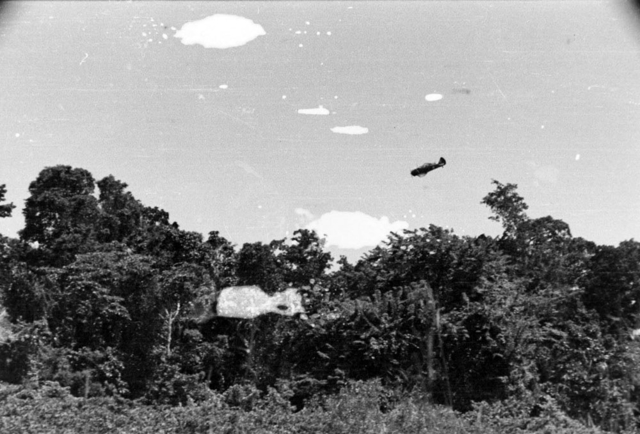 1942-12-08. NEW GUINEA. GONA. ALLIED PLANES SOAR IN AT LOW LEVEL TO MACHINE-GUN JAPANESE SNIPERS OUTSIDE GONA.